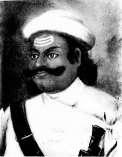 A contemporary portrait of Bamshidhar Kalu Pande (1714-1757), Kaji (~PM & C-in-C) of Gorkha Kingdom wearing a Khukuri, turban and Tripundra Tilak, died in Battle of Kirtipur, Gorkhali war hero, leader of aristocratic Pande Kshetri family